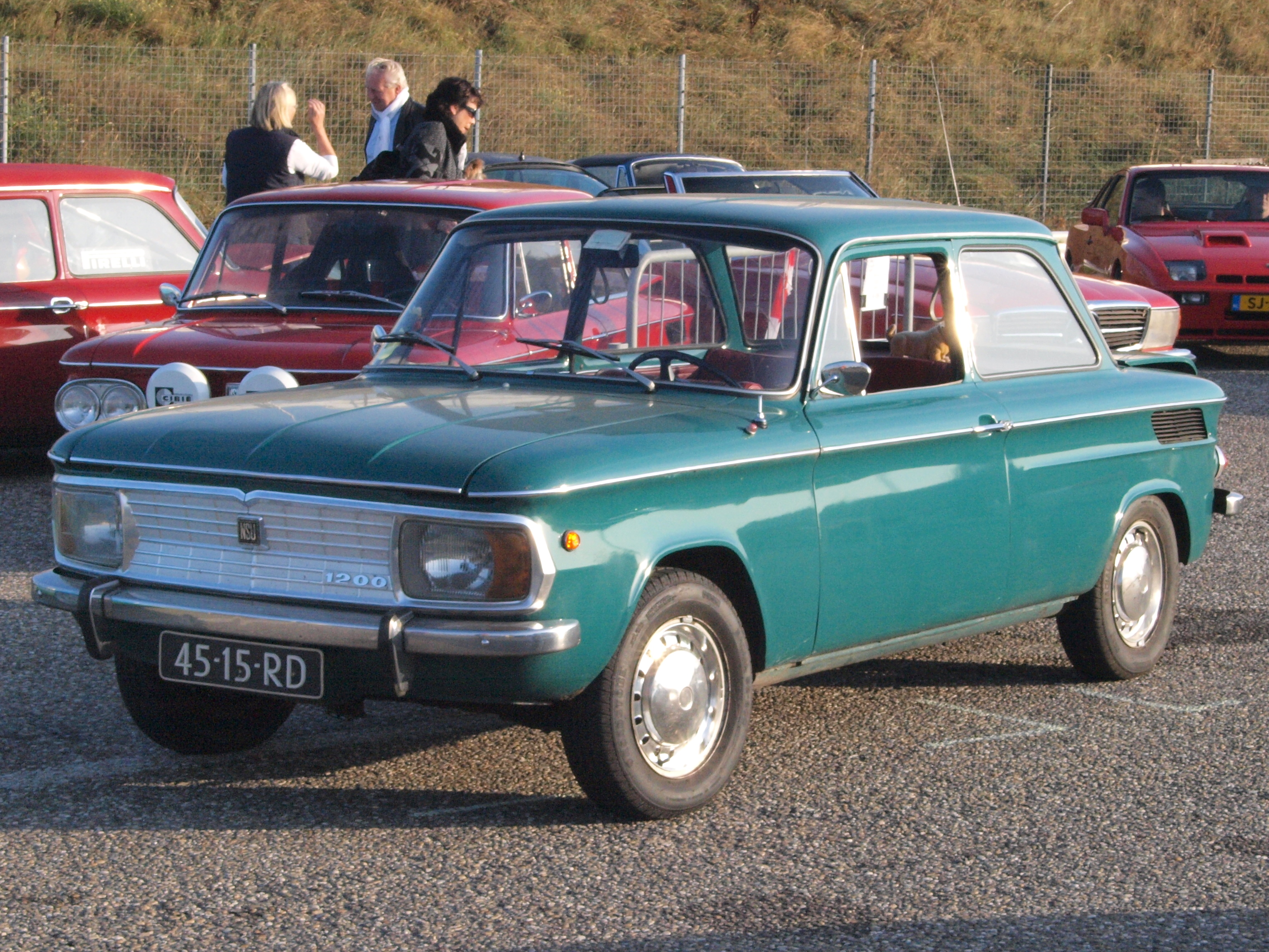 Photographed at the Nationaal Oldtimer Festival Zandvoort 2009, The Netherlands. OLYMPUS DIGITAL CAMERA